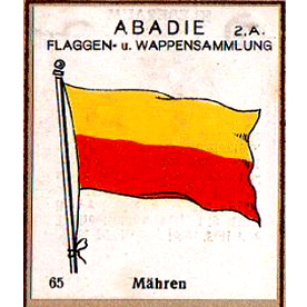 Moravian flag - picture from the beginning of the 20th century